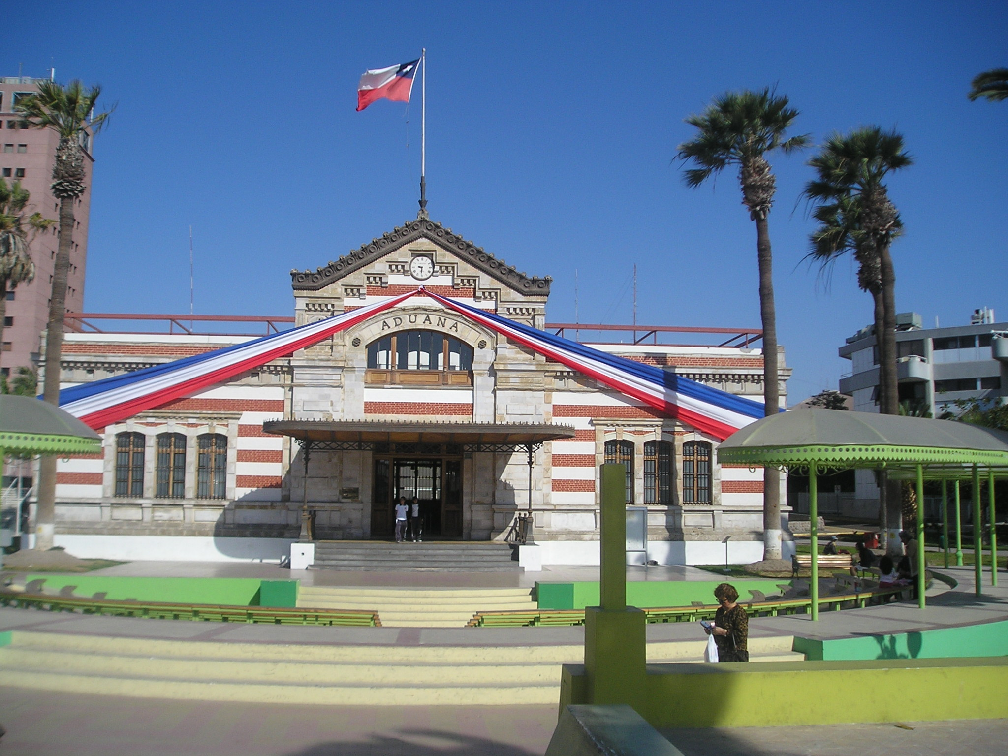 Arica, Chile - former customs building (now an art exhibition centre), constructed by Gustave Eiffel.